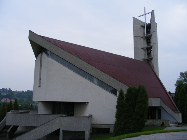 church in Błażkowa